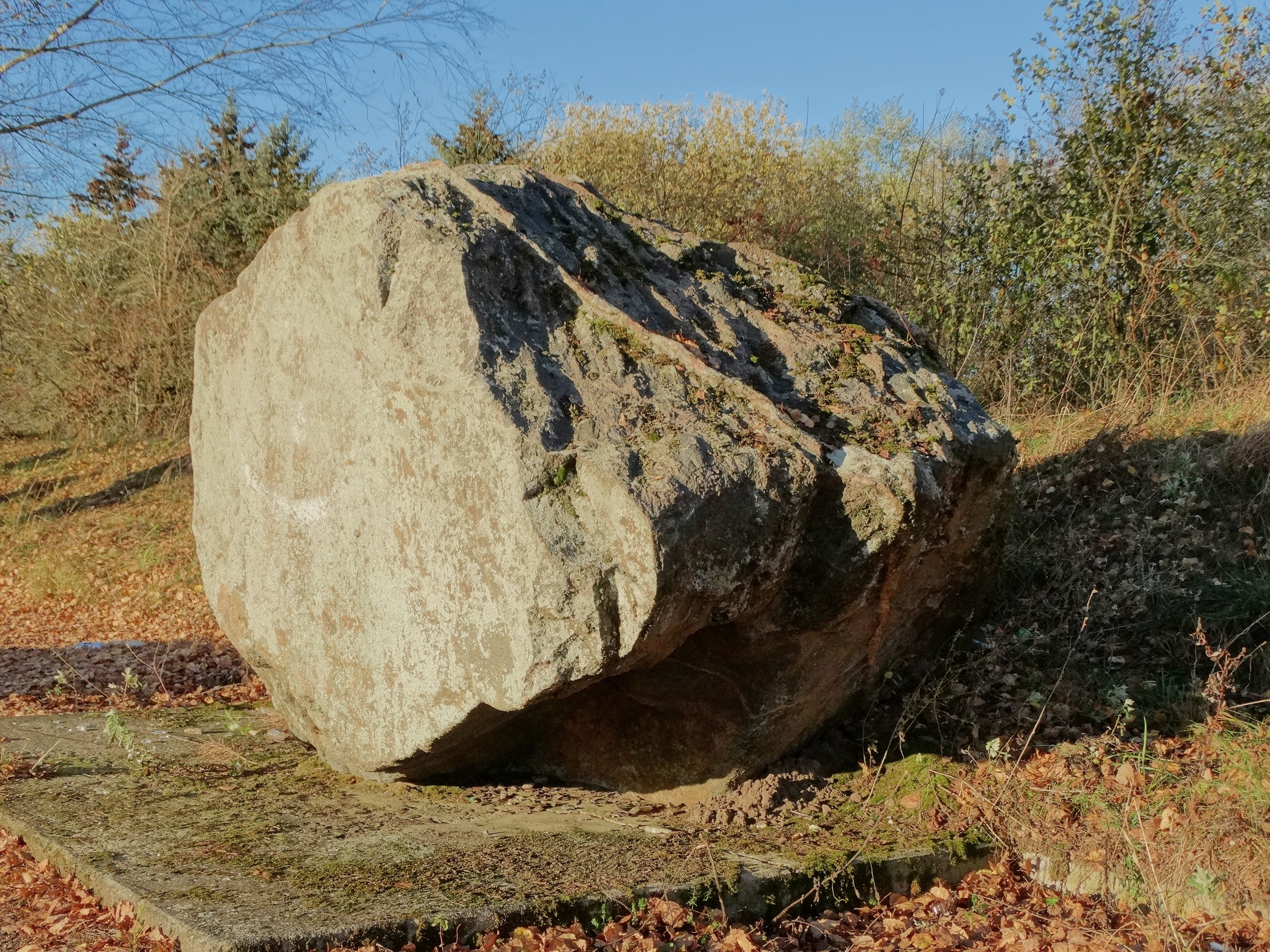 Stone in Darsūniškis, Kaišiadorys district, Lithuania